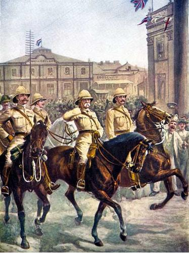 Lord Roberts enters the city of Kimberley in February 1900 following the successful relief of a four-month Boer siege